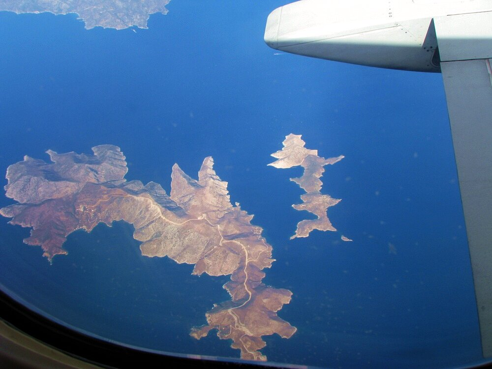 Furni island on Aegean Sea viewed from Boeing 737-400.